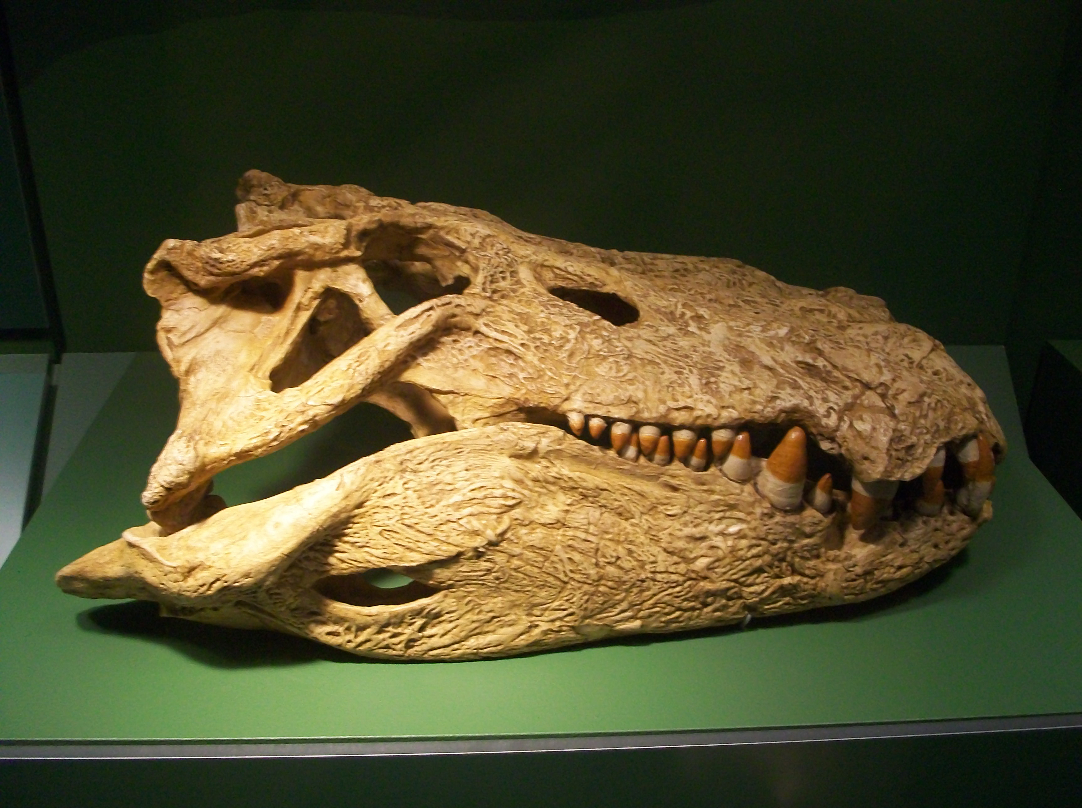 Cast of a skull of Mahajangasuchus insignis in the Field Museum of Natural History